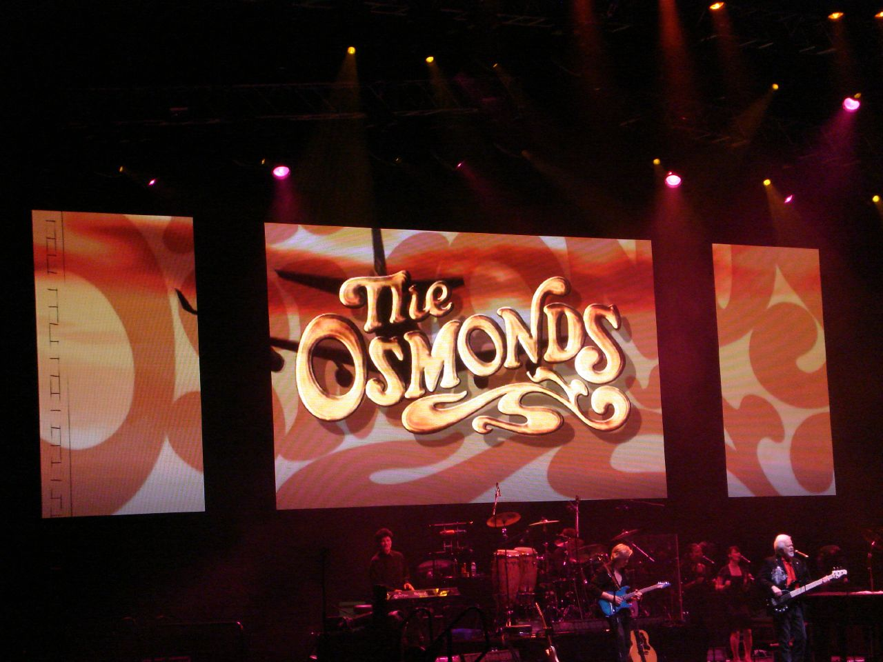 The Osmonds play their 50th Anniversary Tour at the National Indoor Arena in Birmingham, England on May 26, 2008.